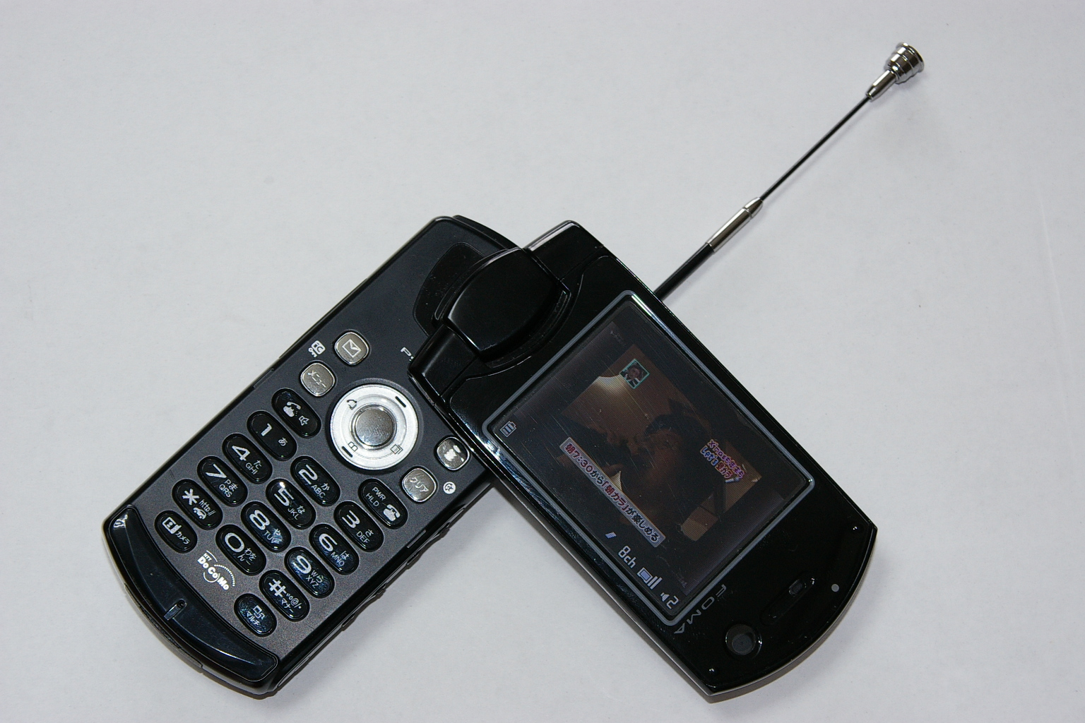 Panasonic P901iTV open style.